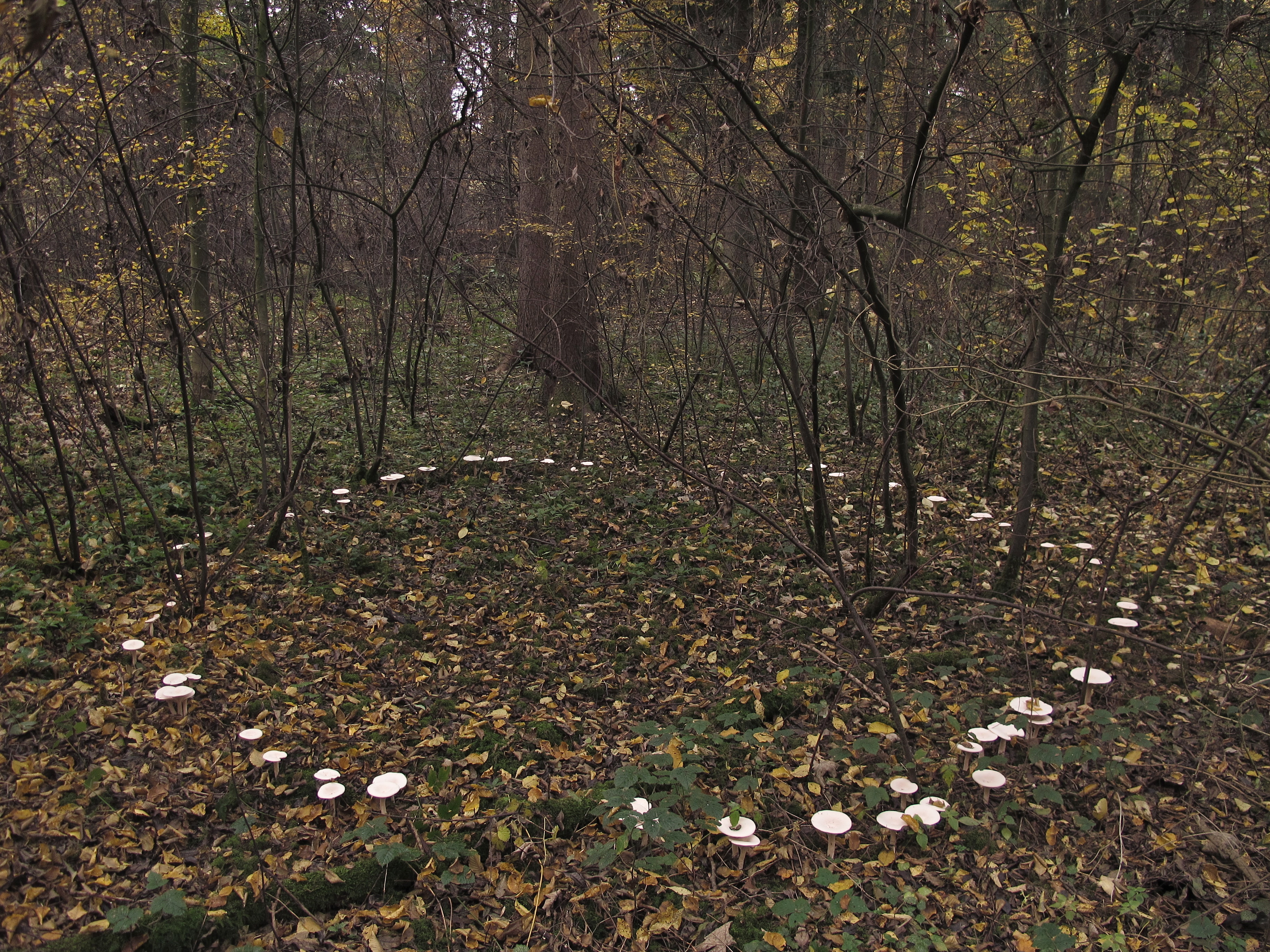 Infundibulicybe geotropa, fairy ring in/near Brutten, Switzerland; recognized by sight For more information about this, see the observation page at Mushroom Observer.